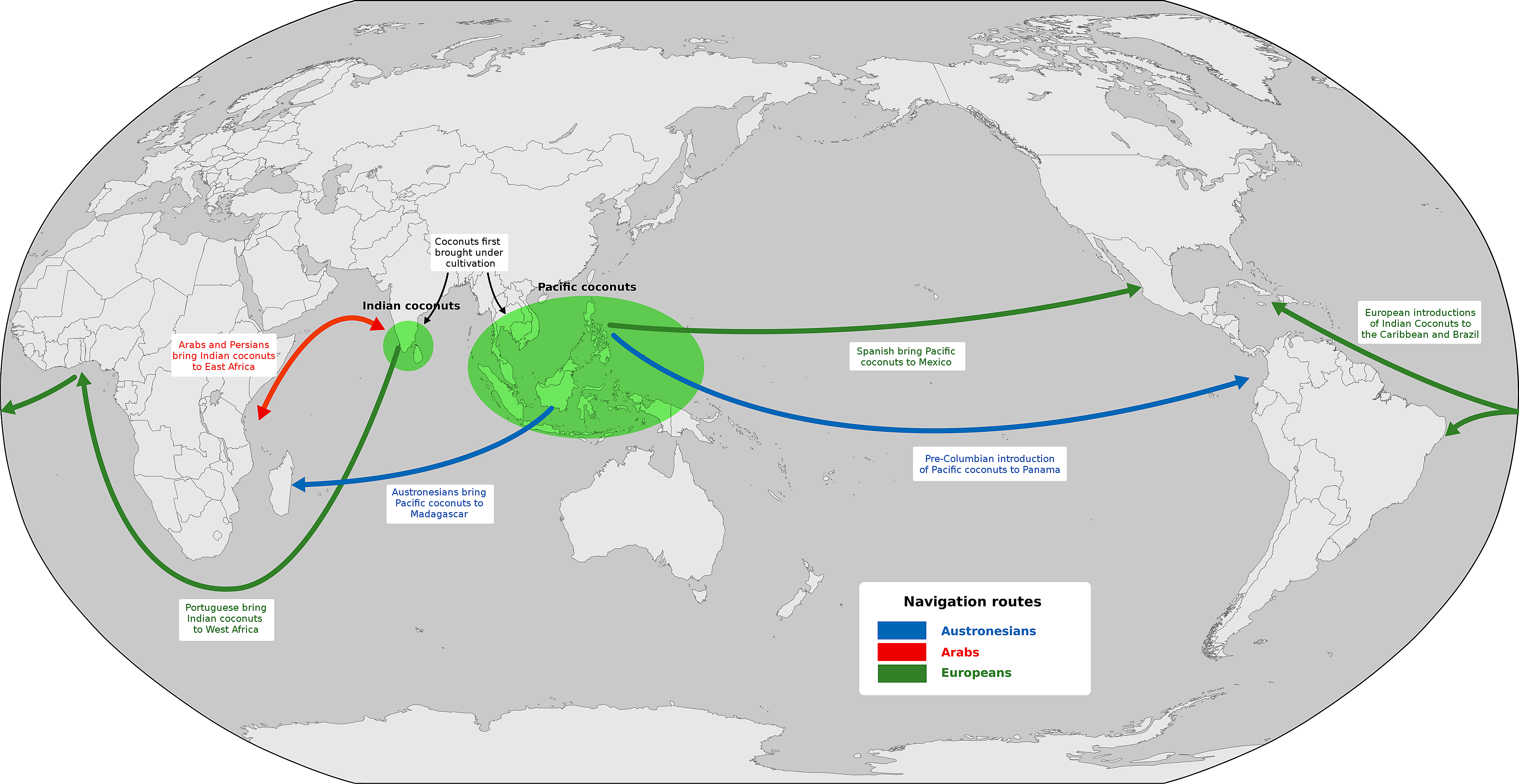 Historical Introduction of Coconuts, per Gunn, Bee F.; Baudouin, Luc; Olsen, Kenneth M.; Ingvarsson, Pär K. (22 June 2011). "Independent Origins of Cultivated Coconut (Cocos nucifera L.) in the Old World Tropics". PLoS ONE. 6 (6): e21143.